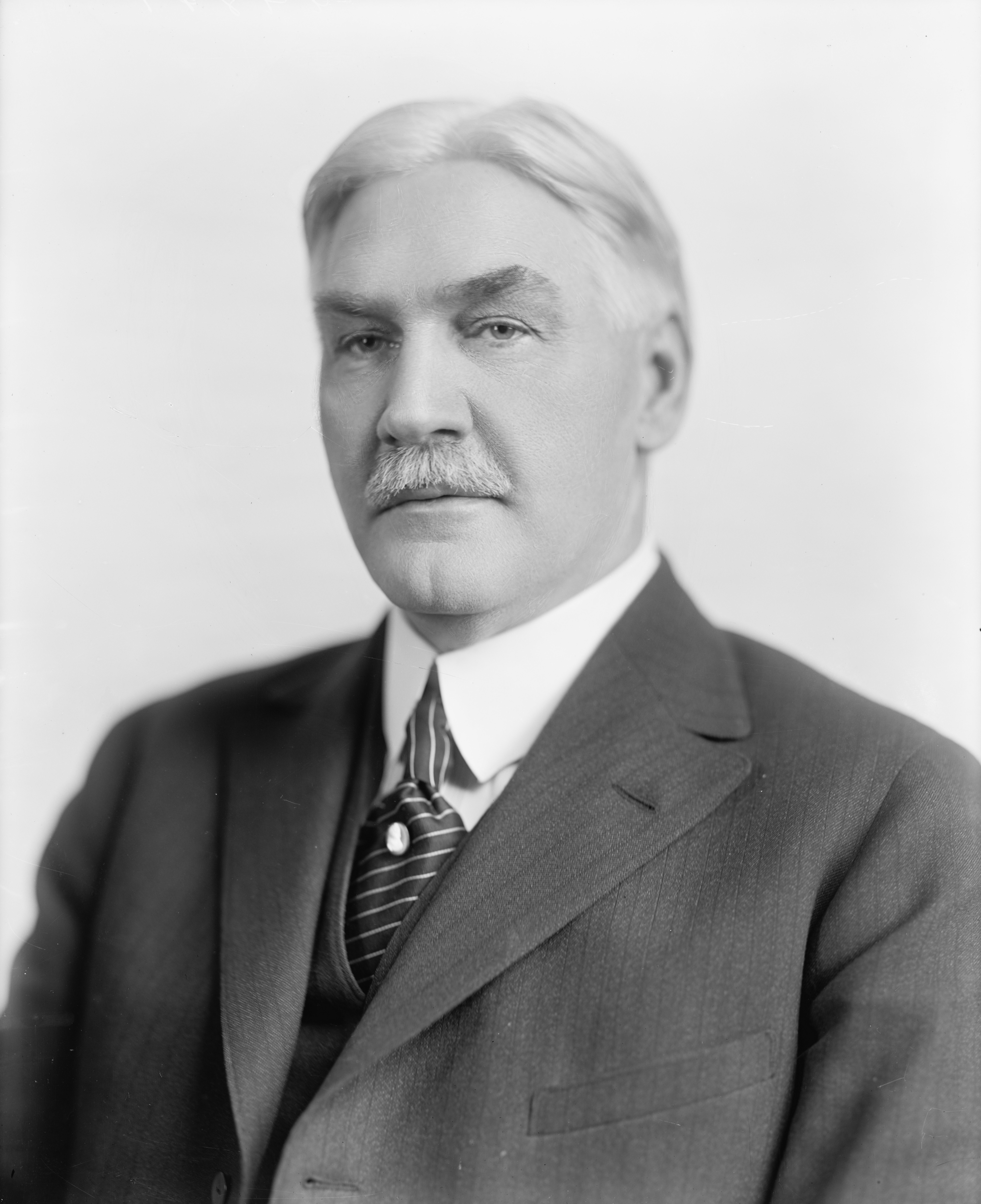 Title: HARRELD, J.W. SENATOR Abstract/medium: 1 negative : glass ; 8 x 10 in. or smaller